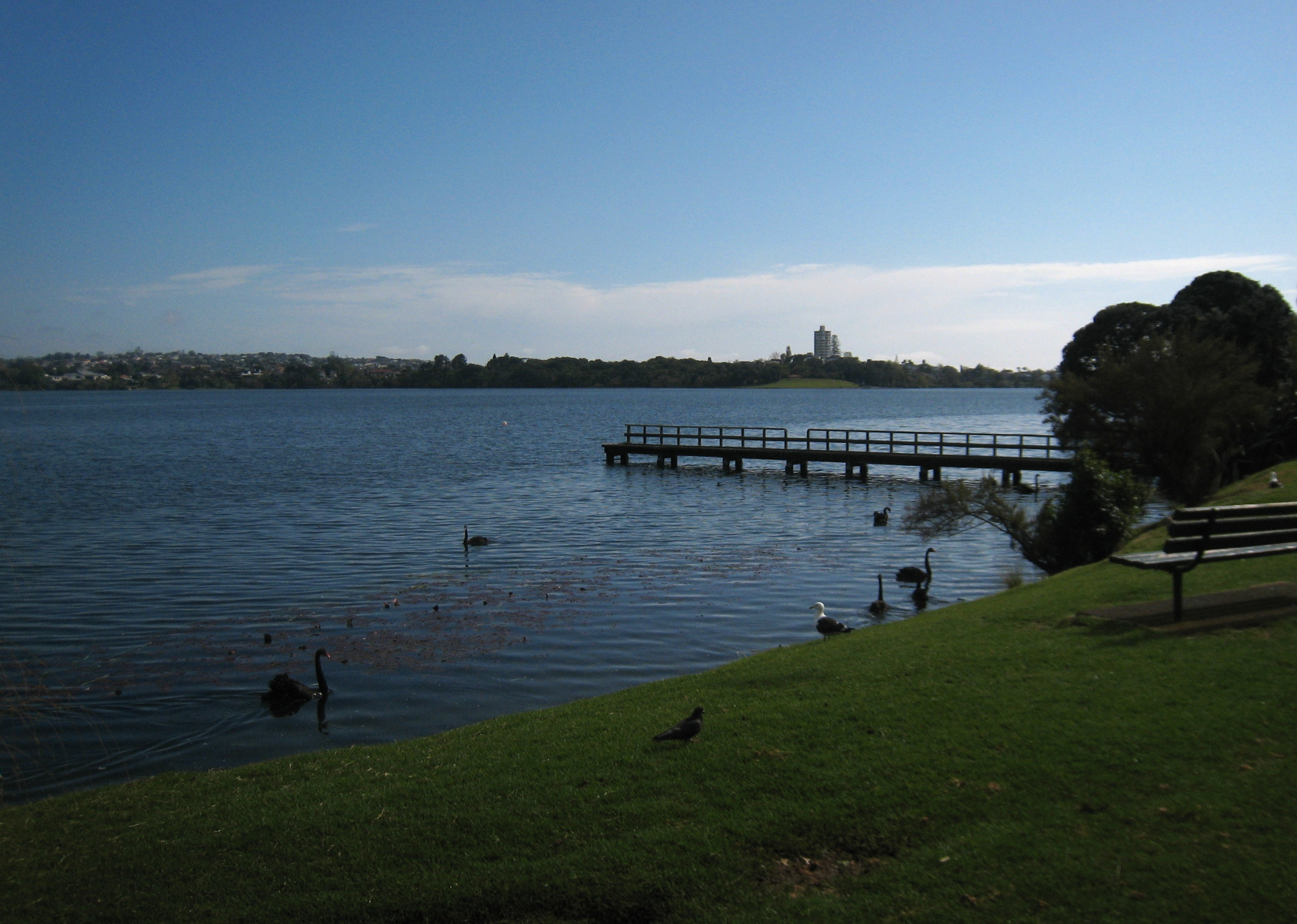 The shore of Lake Pupuke and the jetty near the Pumphouse, Takapuna, Auckland, New Zealand.